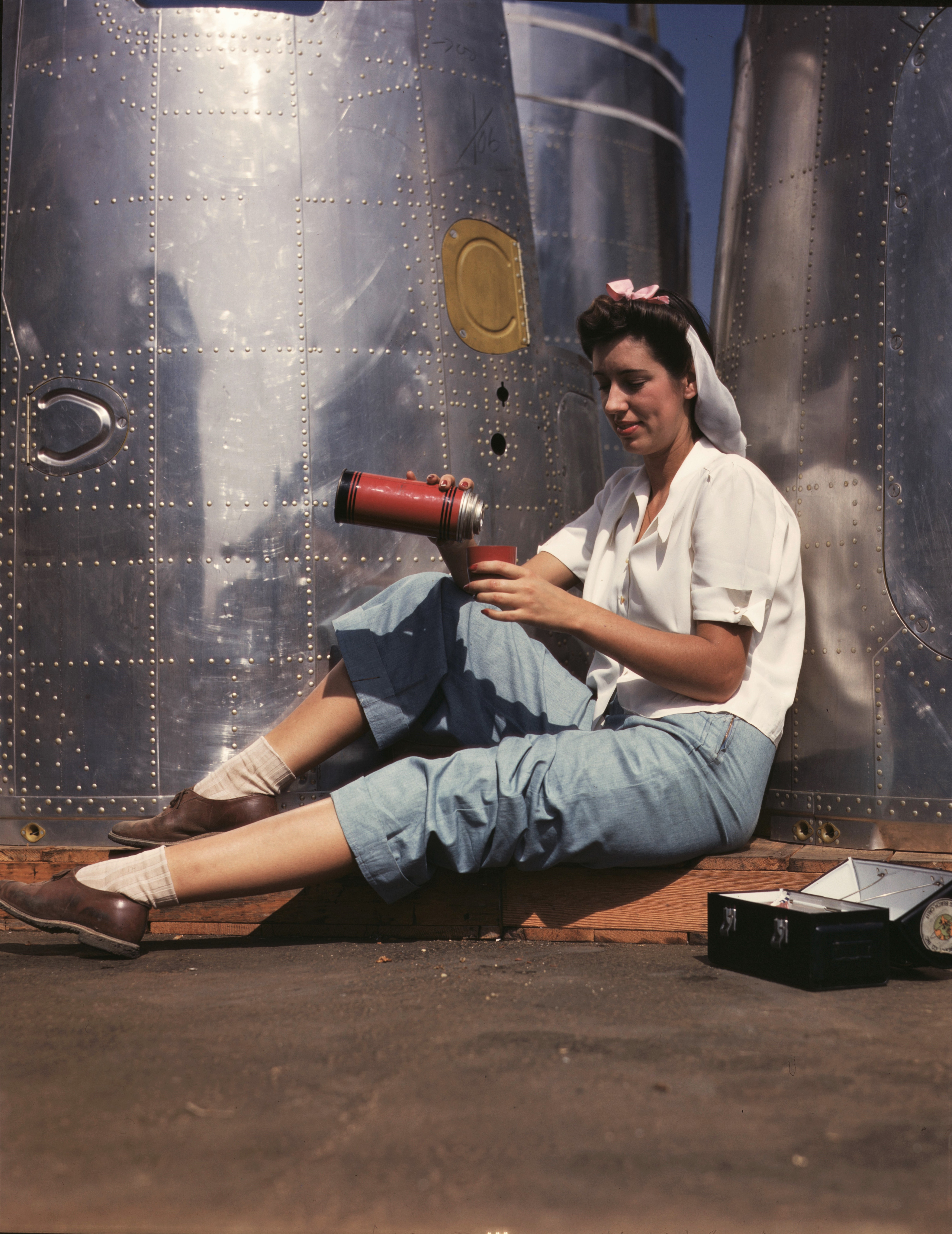 Girl worker at lunch also absorbing California sunshine, Douglas Aircraft Company, Long Beach, Calif.